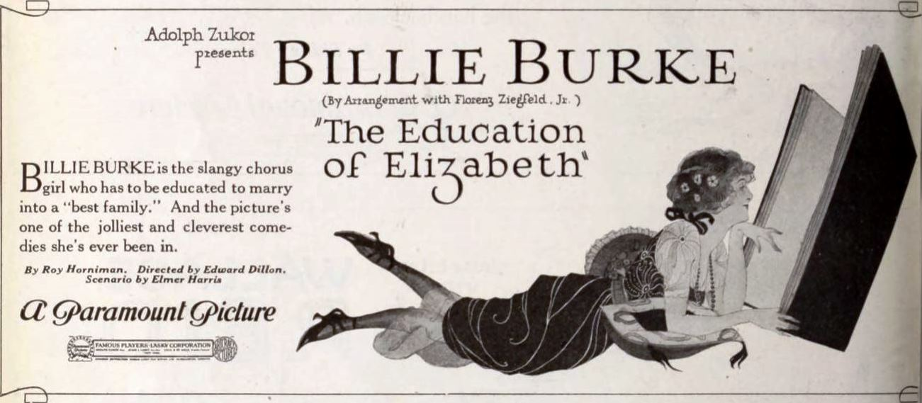 Advertisement for the American comedy film The Education of Elizabeth (1921) with Billie Burke, on page 10 of the January 22, 1921 Exhibitors Herald.